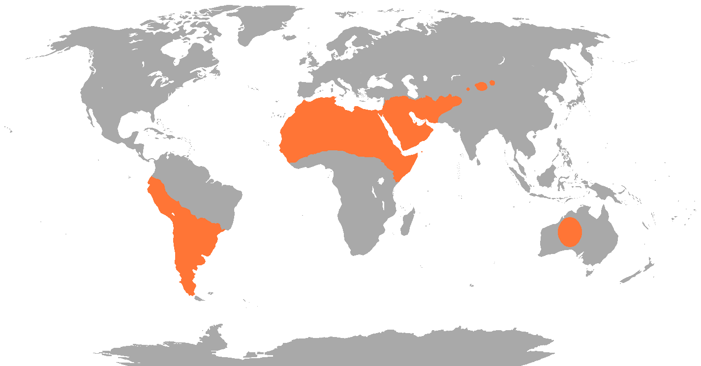 Map showing the range of the Javelina and allies.